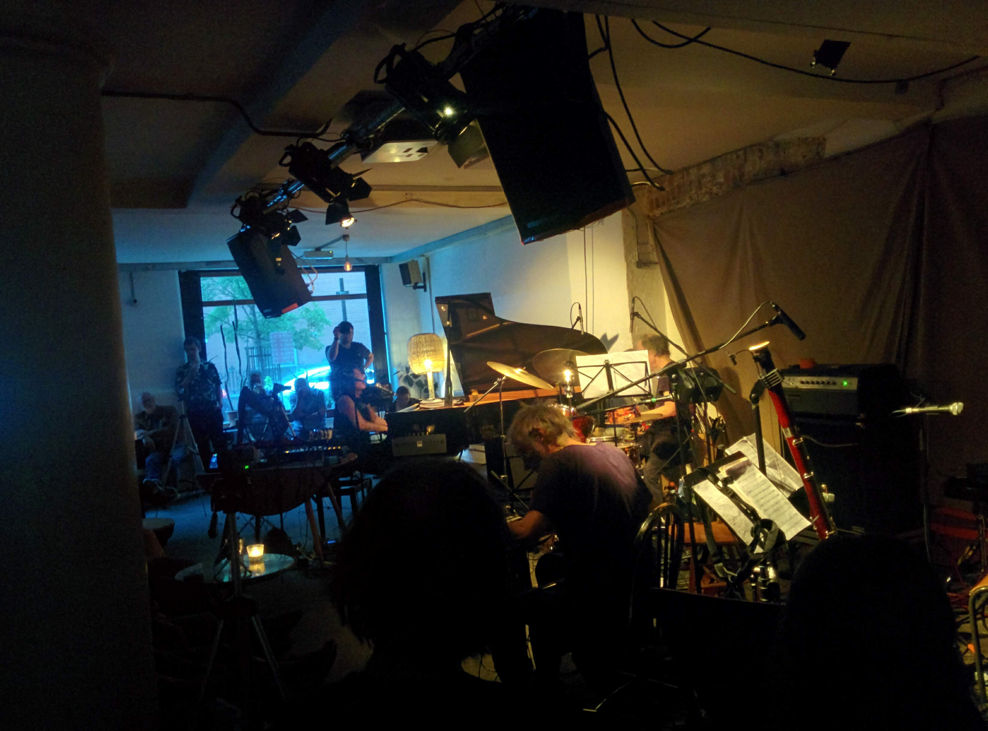 The Watts performing live at their UK debut, 16 June 2018, at Cafe OTO in Dalston, London. The Watts consists of Yumi Hara Cawkwell, Chris Cutler and Tim Hodgkinson.